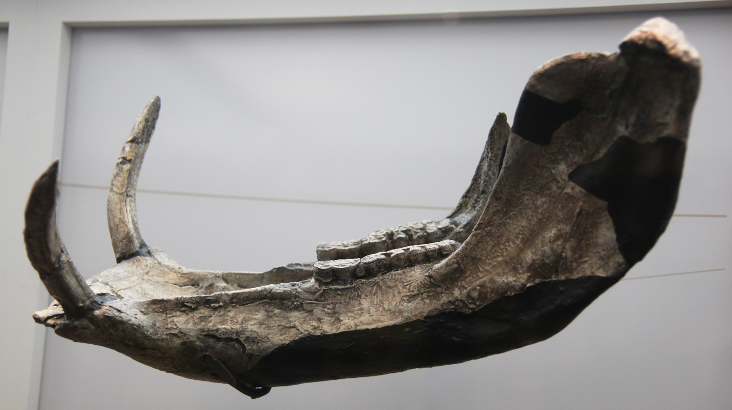 Metridiochoerus hopwoodi - extinct wild pig - Smithsonian Museum of Natural History - 2012-05-17